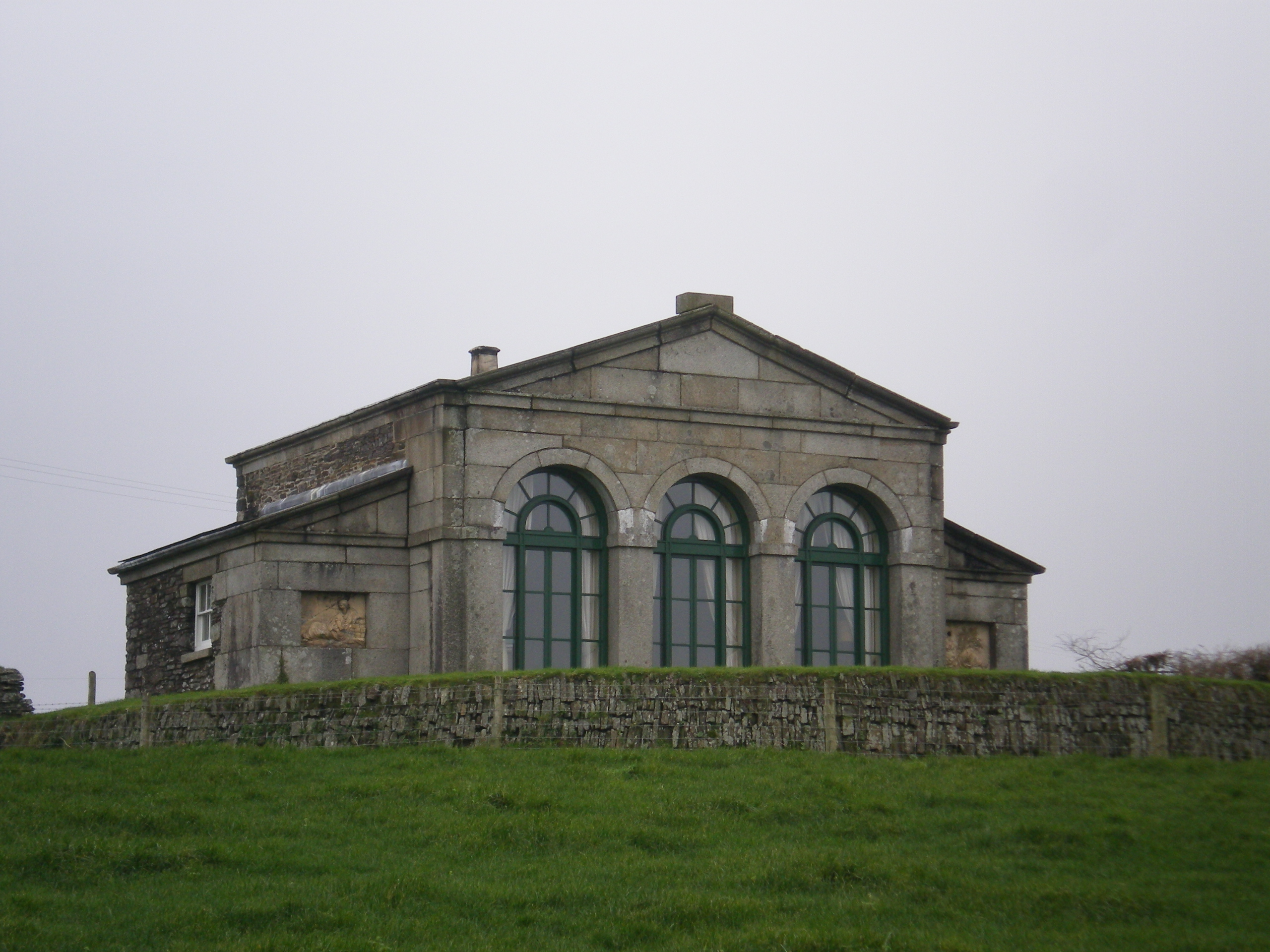 Picture of Whiteford Temple, garden folly of the now demolished Whiteford House. Now a Landmark Trust holiday cottage